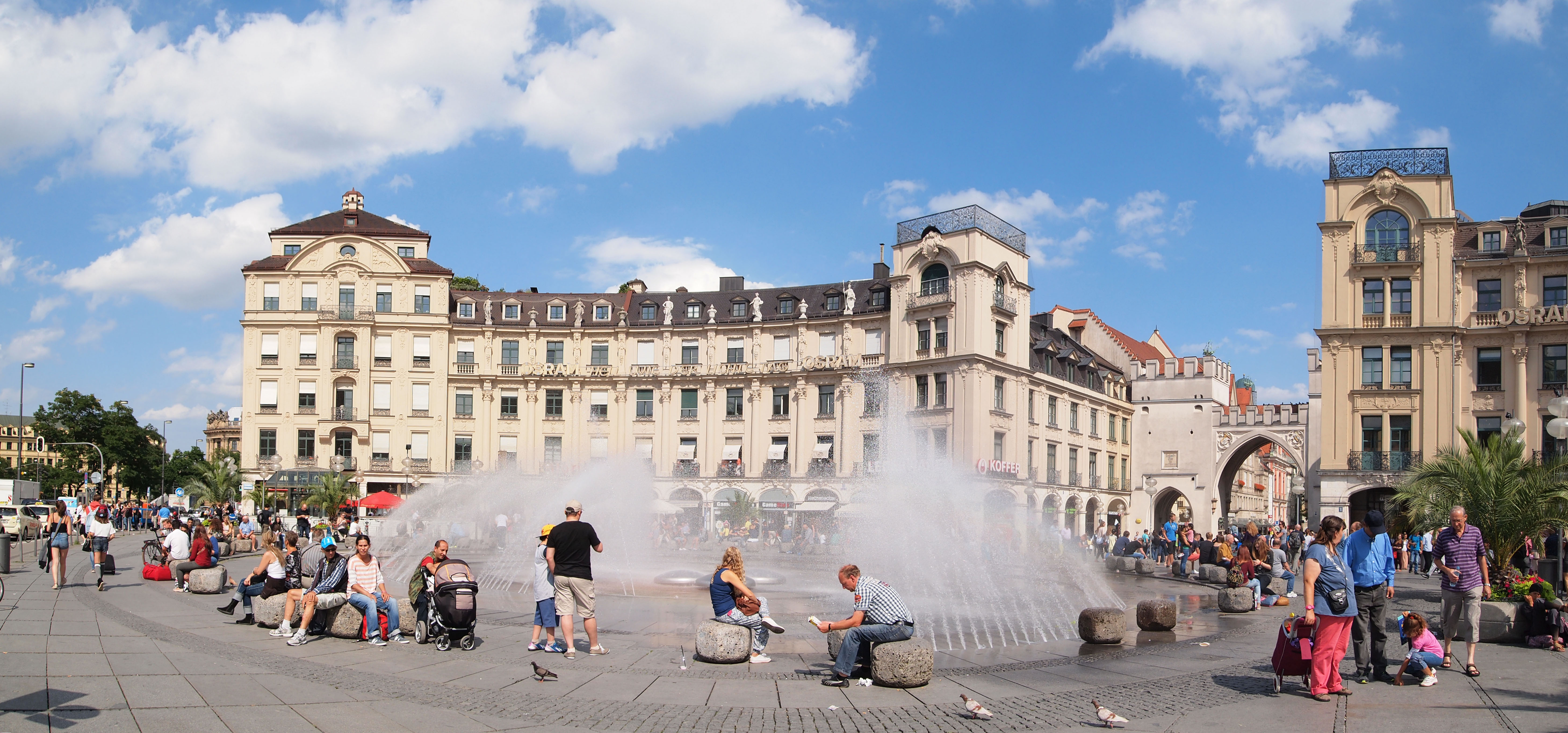 View of the fountain Stachus-Brunnen on the Karlsplatz in Munich.This photograph was taken with an Olympus E-PL1